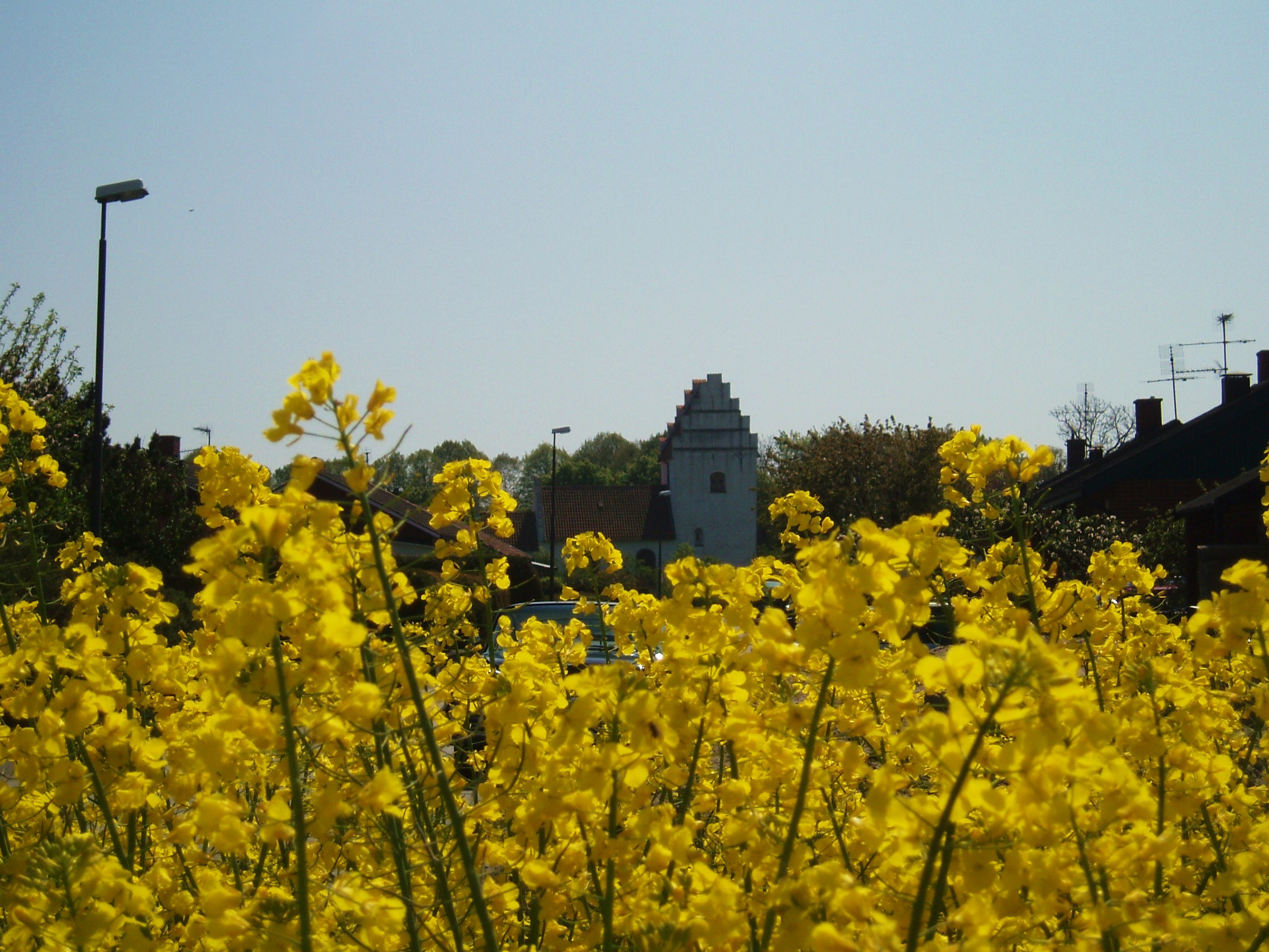 Hedeskoga's church seen from a corpland with raps in Hedeskoga.